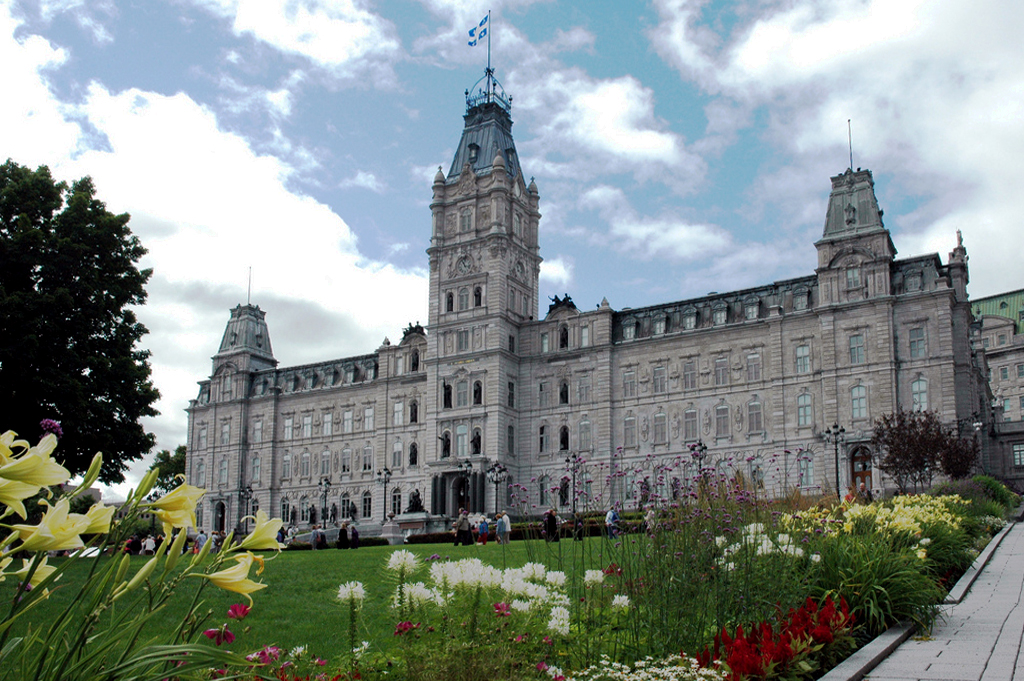 Parliament Building of Quebec, seat of the Quebec National Assembly